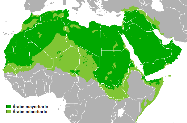 Distribution of Arabic. Legend: dark green – Arabic majority; light green – Arabic minority.